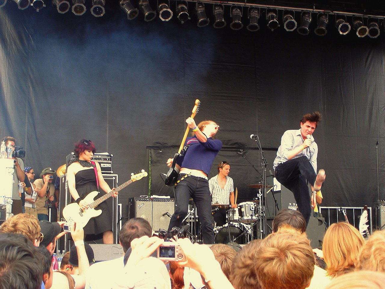 Art Brut at the Pitchfork Music Festival in 2006.